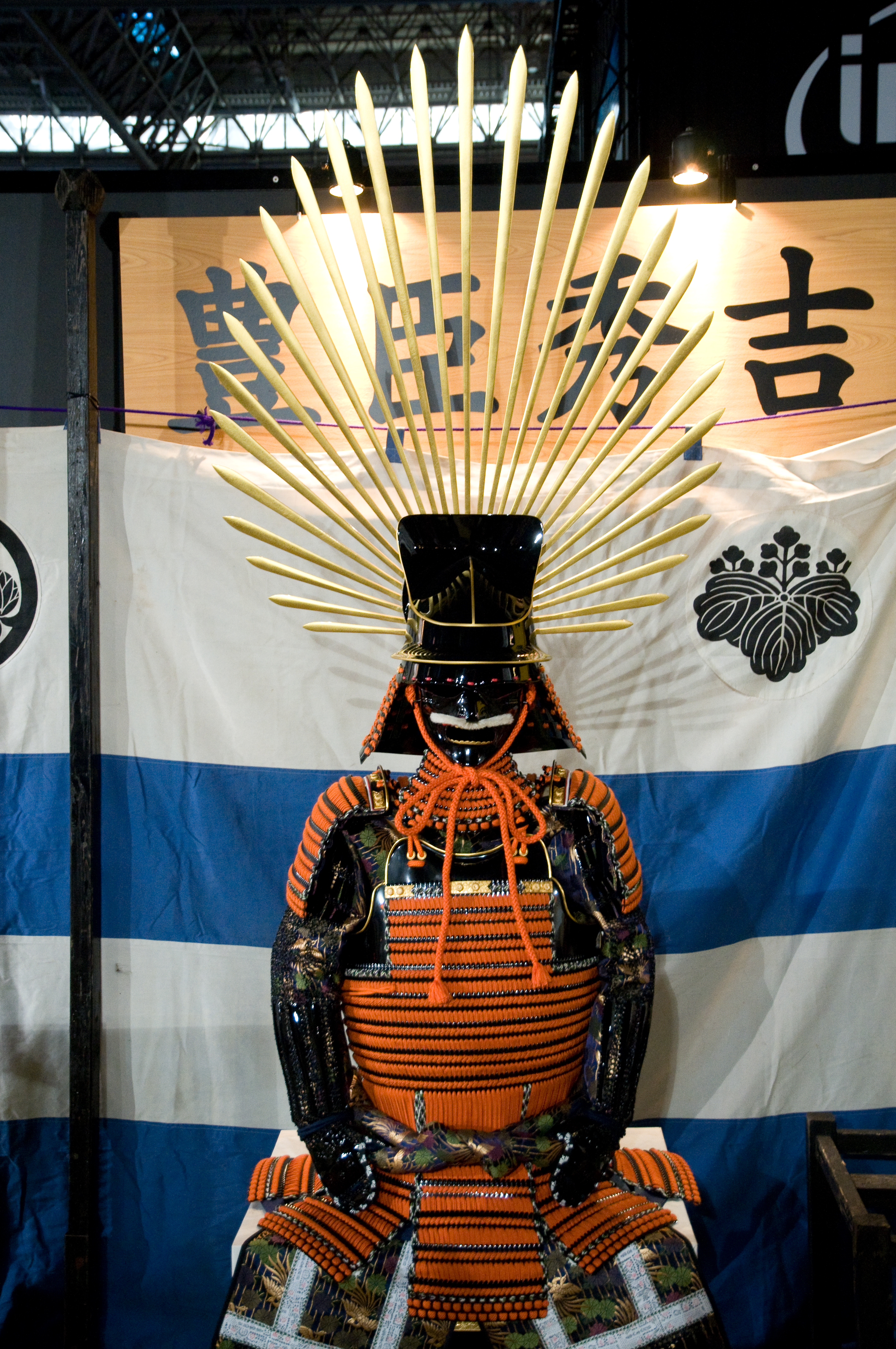 Koei Tecmo booth with a small exhibition of samurai armors. This was Toyotomi Hideyoshi's armor.